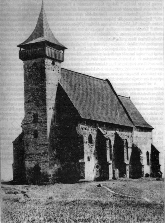 the calvinist church in Marosszentimre (Sântimbru)